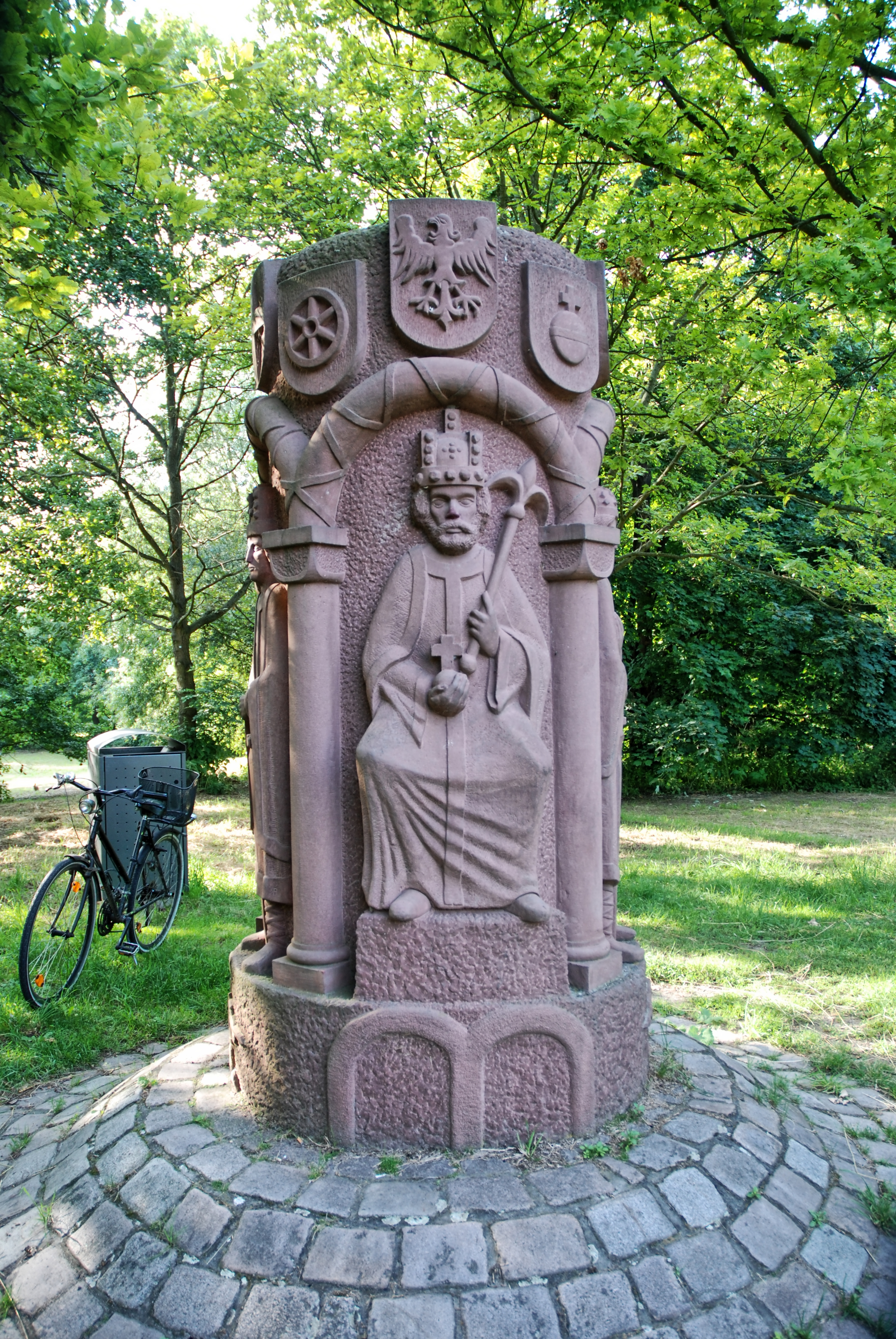 Memorial for emperor Frederick I Barbarossa by Erwin Mosen at the Maarau, Mainz. The column shows the Emperor Barbarossa flanked by his two sons, Henry and Frederick, to them he gave the knighting (Accolade) here.